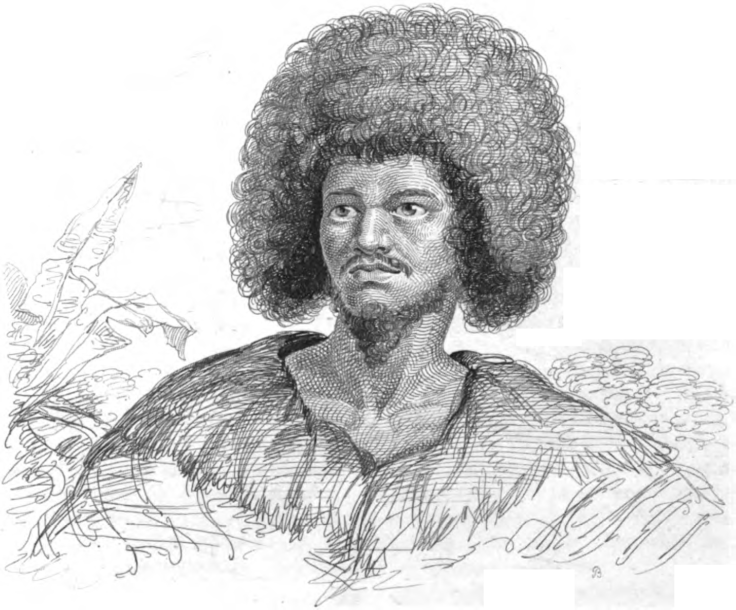 Pōmare I, King of Tahiti (1742-1803), fully in old orthography: Tu-nui-ea-i-te-atua-i-Tarahoi Vairaatoa Taina Pomare I (also known as Tu or Tinah or Outu or simply as Pomare I), was the unifier and first king of Tahiti between 1788? and 1791.